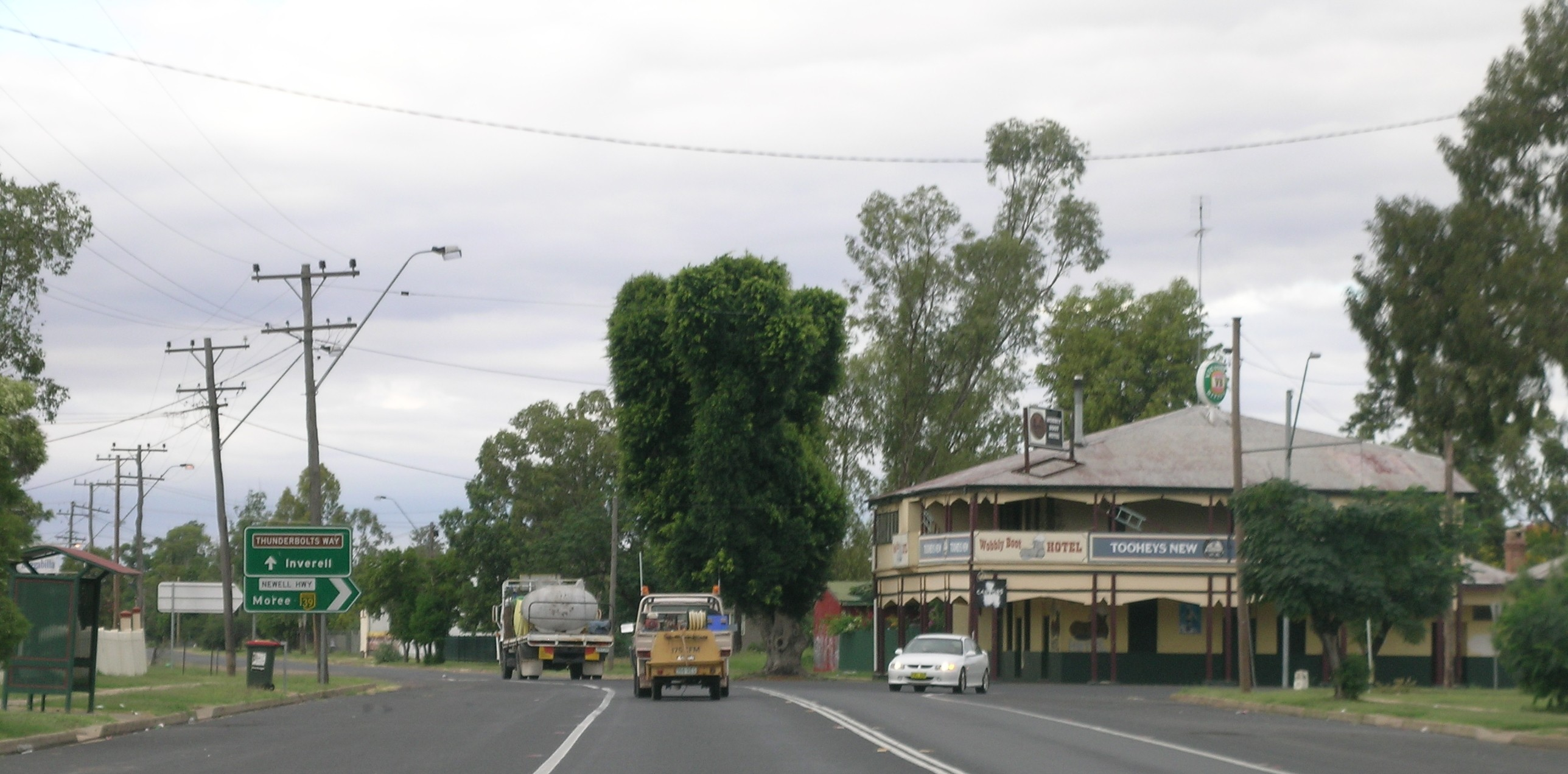 Boggabilla, NSW